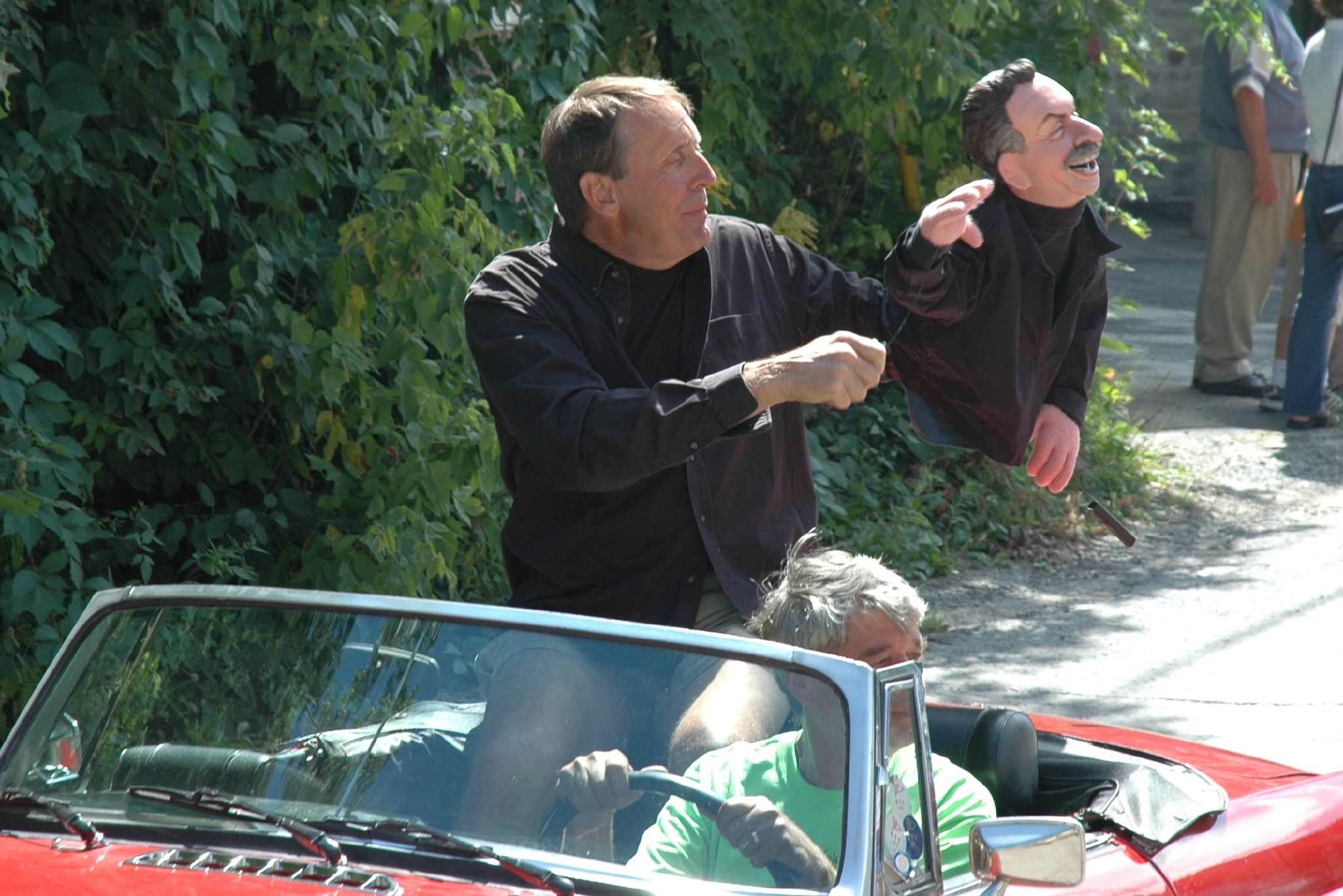 Wayne Rostad with puppet, Almonte Puppet Festival, photo of 12 August 2006; attribution: Flickr user rkelland; Licence: cc-by-sa-2.0